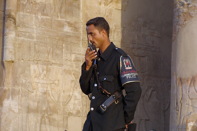 Egyptian policeman, 2010